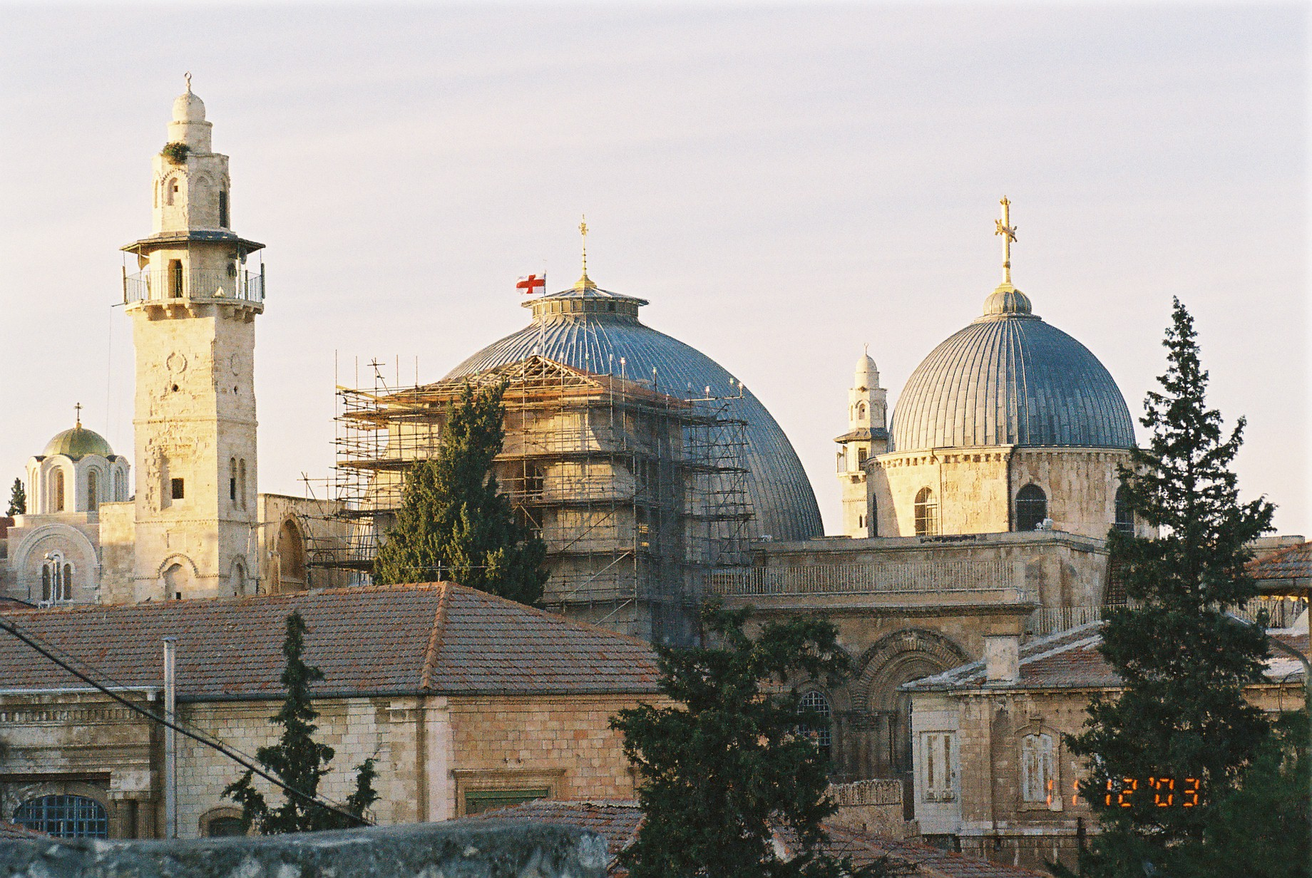 Southern front of the Church of the Holy Sepulchre, old city of Jerusalem, Israel.